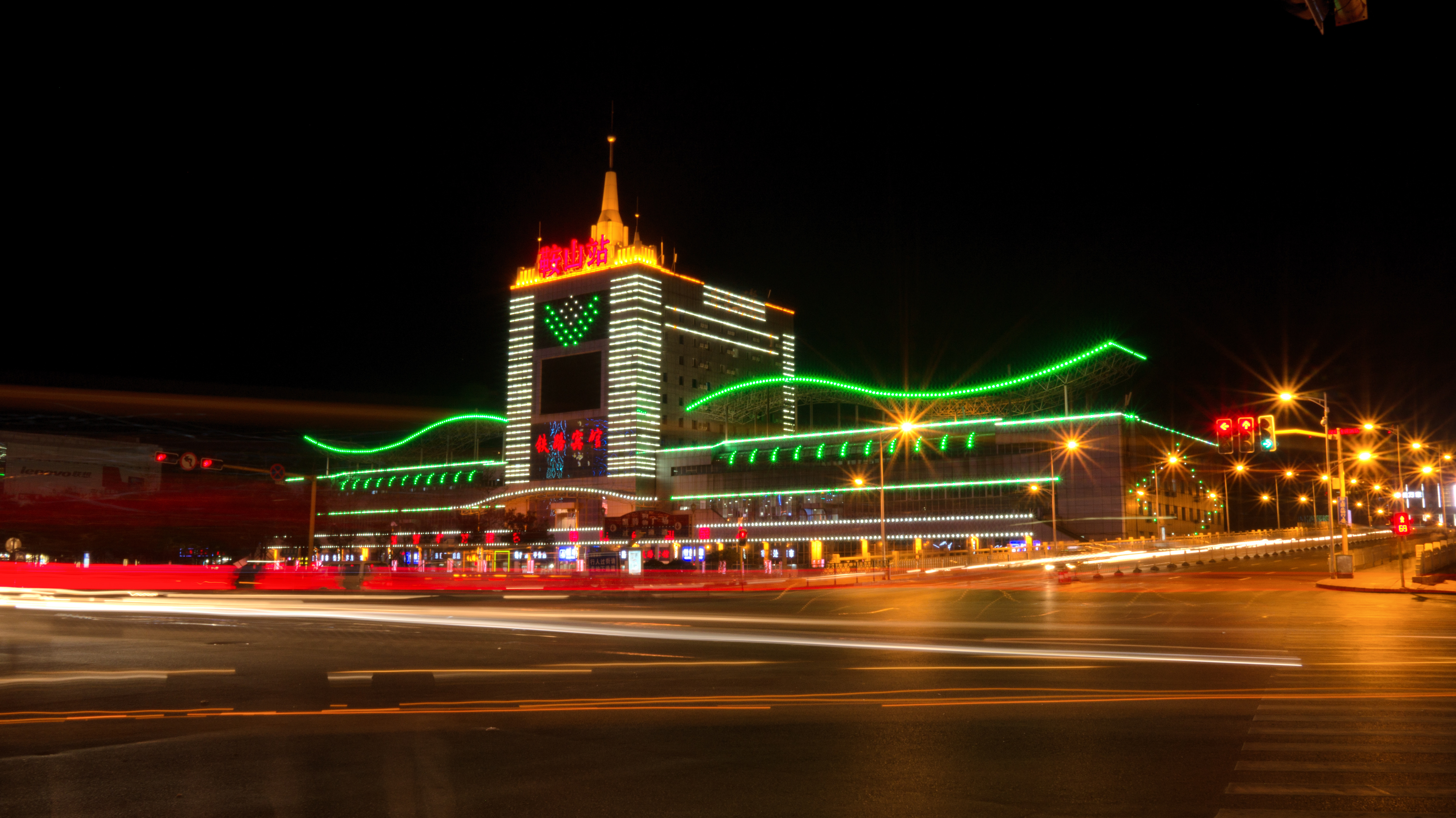 The main railway station in the centre of Anshan city, Liaoning, China.